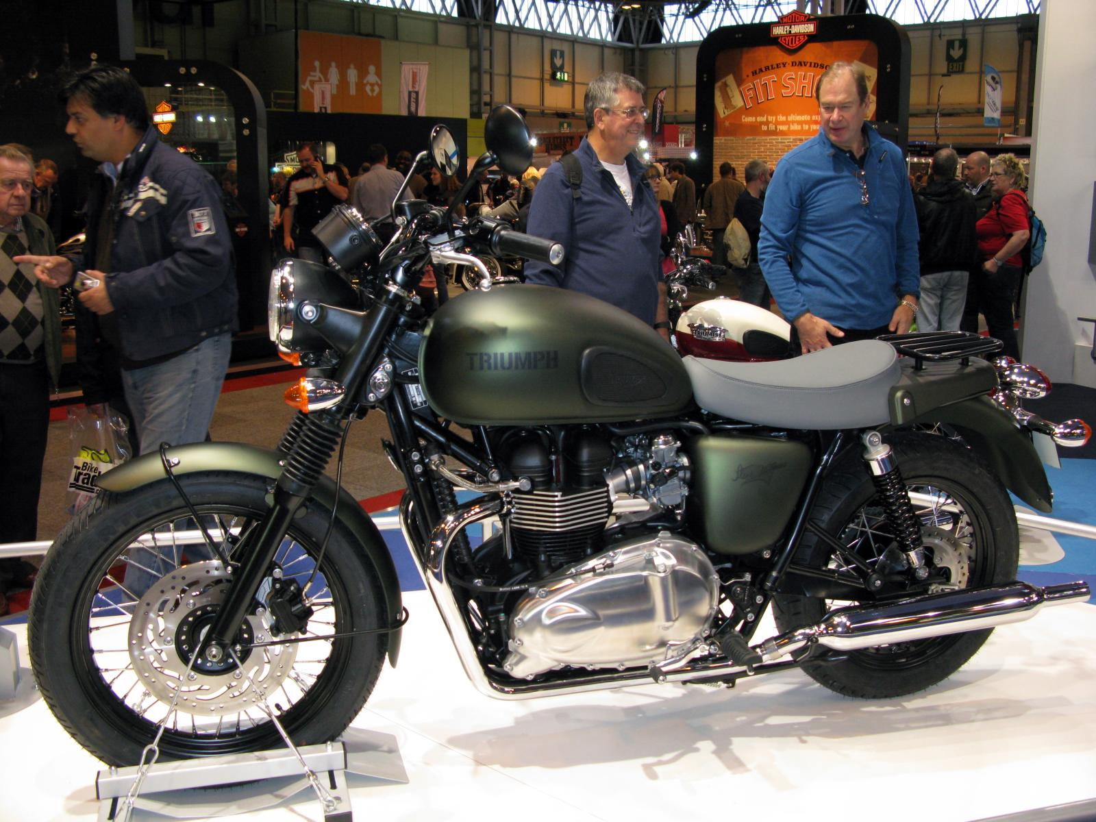 Inspired by the famous Triumph Trophy TR6 that McQueen rode in Great Escape